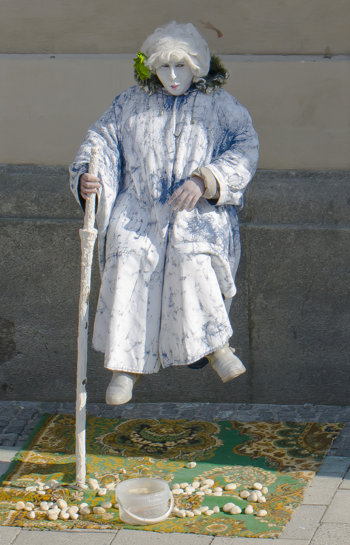 Street artist, Munich, Germany